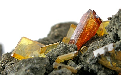 Raspite, Stolzite Locality: Broken Hill, Yancowinna County, New South Wales, Australia (Locality at ) Size: cabinet, Raspite and Stolzite This rich specimen has an upper display face featuring about half a dozen SHARP AND GEMMY raspite crystals, to 6 mm, mixed with equally sharp and gemmy stolzite crystals to a really large 7mm size. There is some damage, some broken crystals, but also many intact and freestanding as you seldom see (at least half a dozen good crystals of each species and several of those being superior quality as well!). It is overall one of the richer specimens of this classic combination I have seen, from the early 1900's. I have not had a specimen of either species here in ages, and to get the classic combo, on the same specimen, is a very treasured find! For the piece to be somewhat displayable as a pretty object, more so.